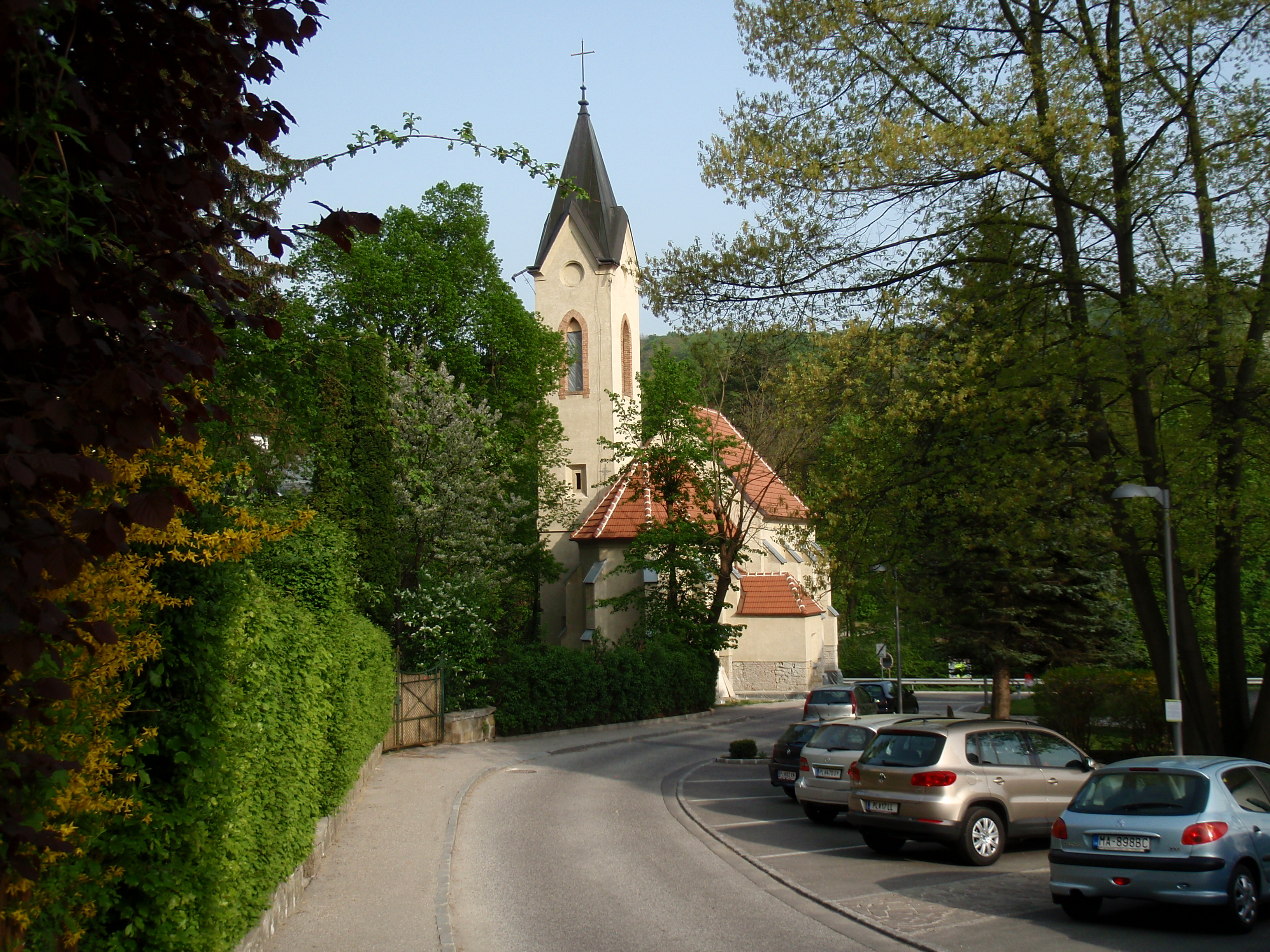 Old Roman Catholic Church in Eichgraben, Lower Austria.